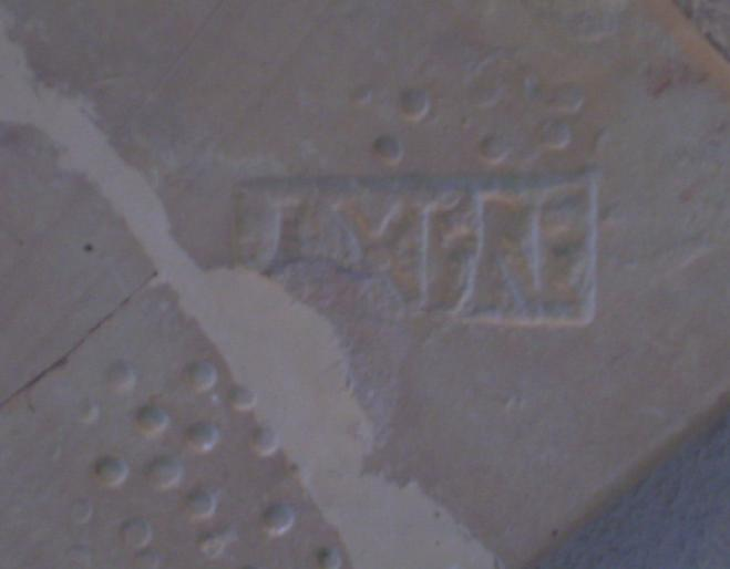 Stamp Impressions of the Legio X Fretensis - Type f5, that found in Givat Ram, Jerusalem Displayin International Convention Center (Jerusalem)